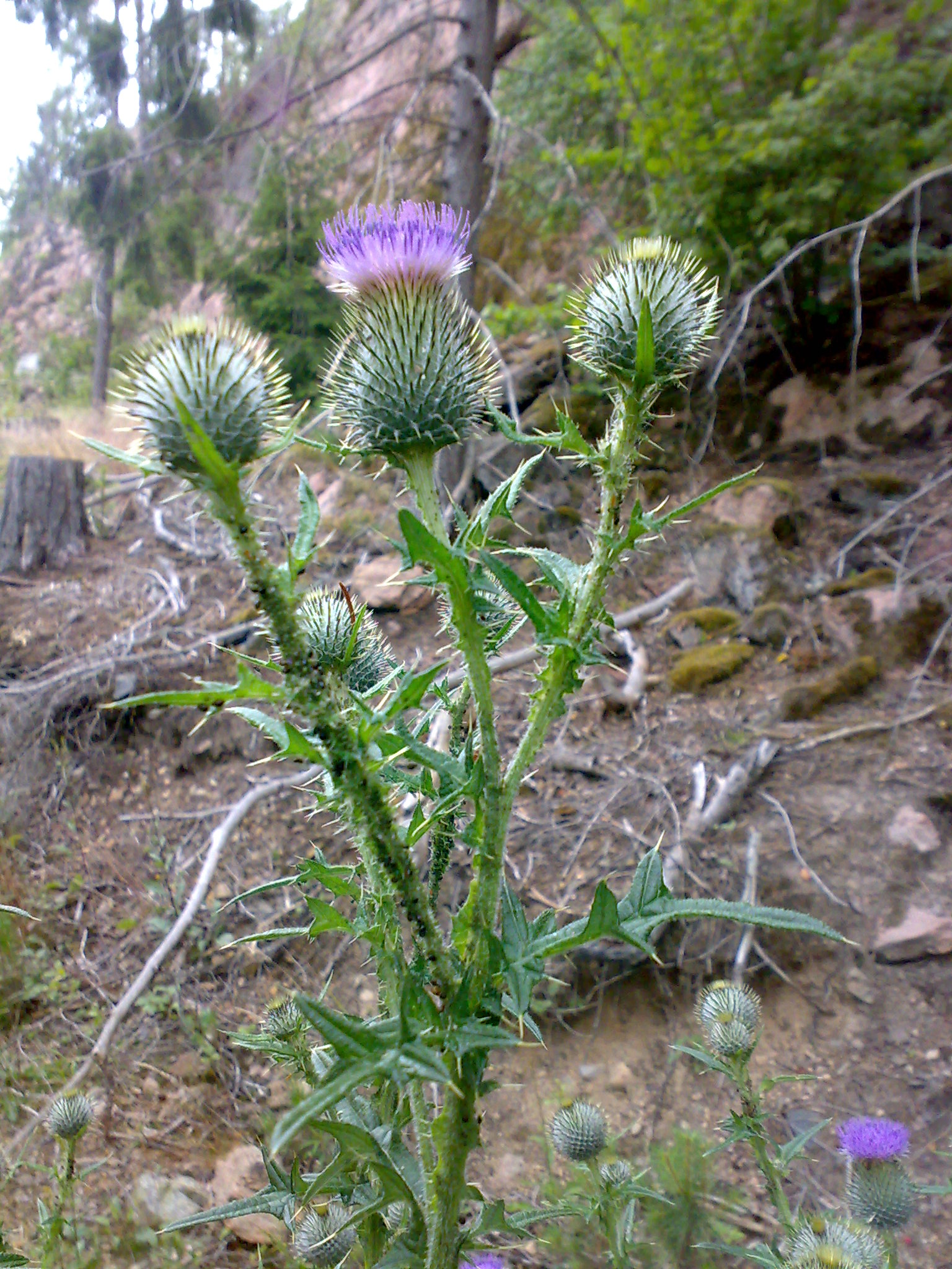 Cirsium vulgare in Hurum, Norway